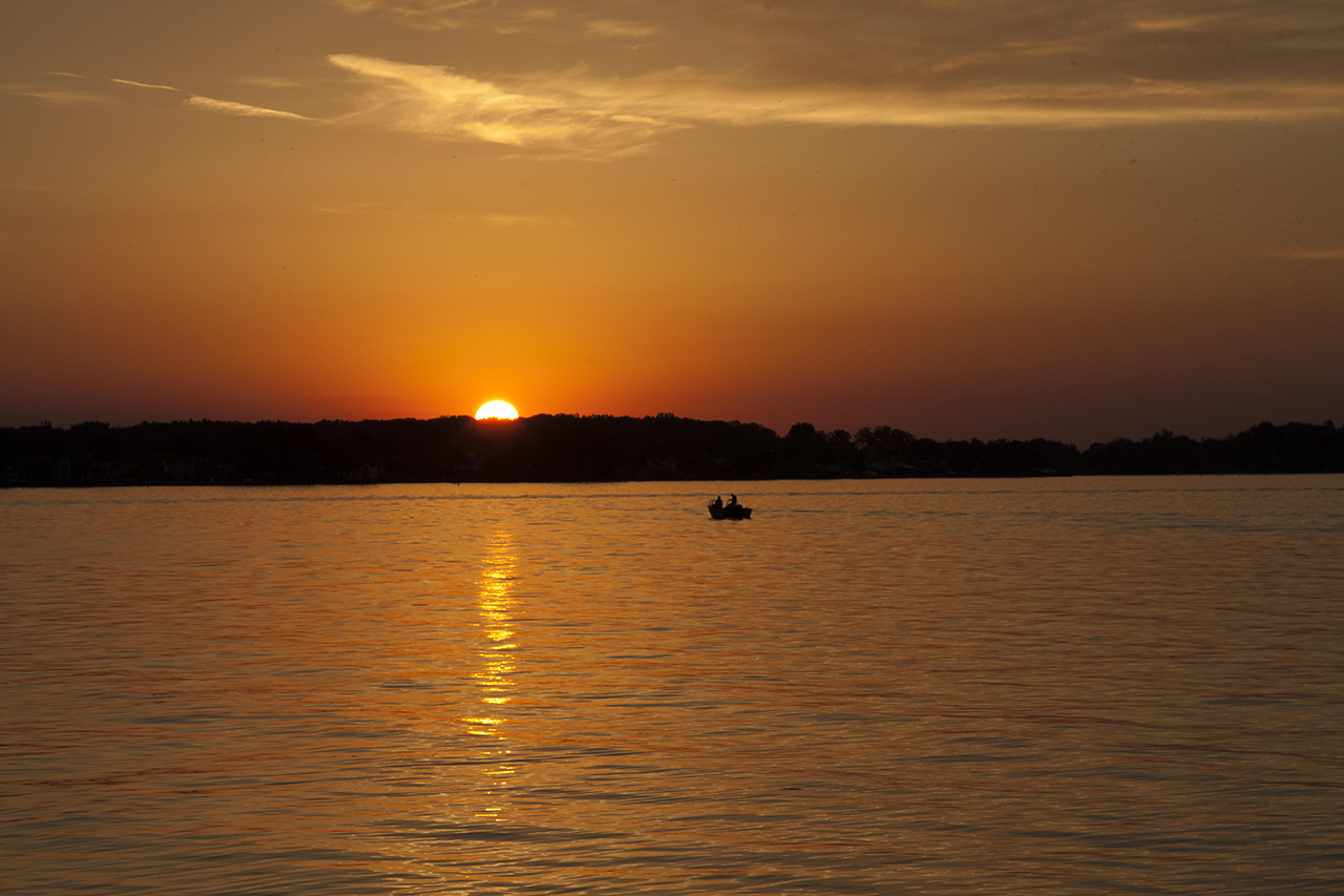 Fishermen on Lake Saint Clair, Michigan as the sun sets.